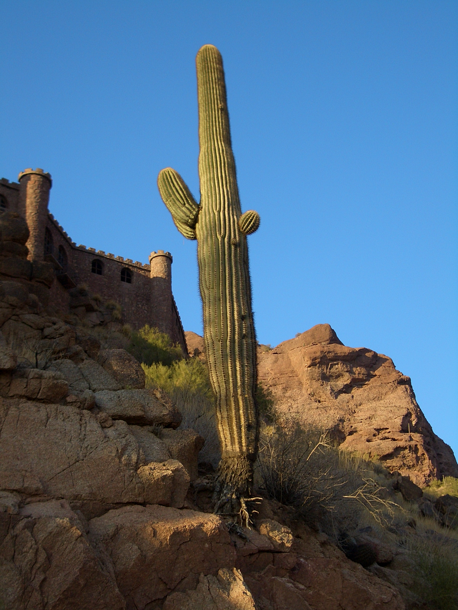 A saguaro cactus with its roots exposed by erosion stands dangerously above a road in the foothills of Camelback Mountain. (Phoenix, Arizona)